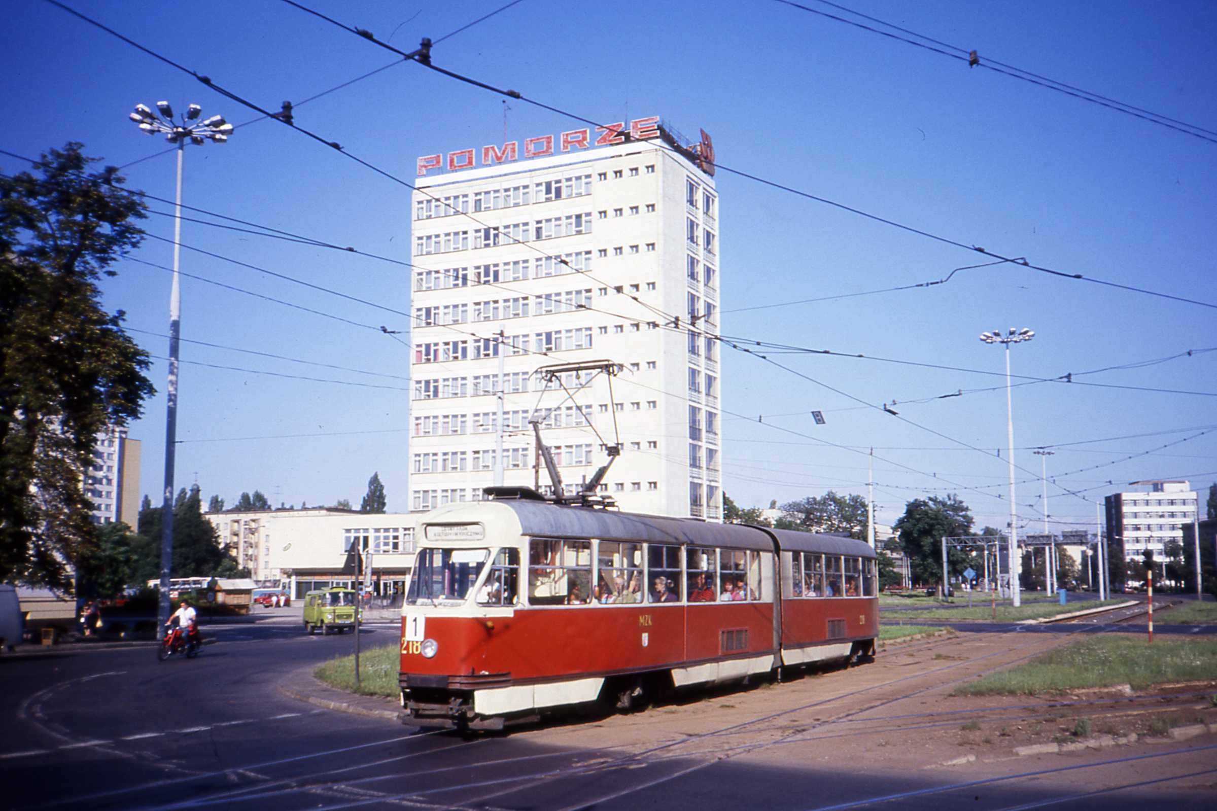 Rondo Jagiellonów , junction with 3 Maja. 803N Konstal car no 218 of 1974, route 1. (another former railway station route) to Leśny Park, which has been the destination since 25 January 1990 when the station routes were ceased. All details of the Bydgoszcz tram system are in this WIKIPEDIA PAGE Fleet no 218 was a 1974 Konstal 803N (1000mm gauge Konstal 102N car) which was scrapped in 1994. 201-221 was the fleet of these vehicles purchased between 1973 and 1974.